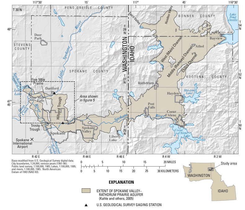 Map of the Spokane Valley-Rathdrum Prairie aquifer and its location within the states of Washington and Idaho, published by the United States Geological Survey and used in a Report by Sue C. Kahle and James R. Bartolino [1]